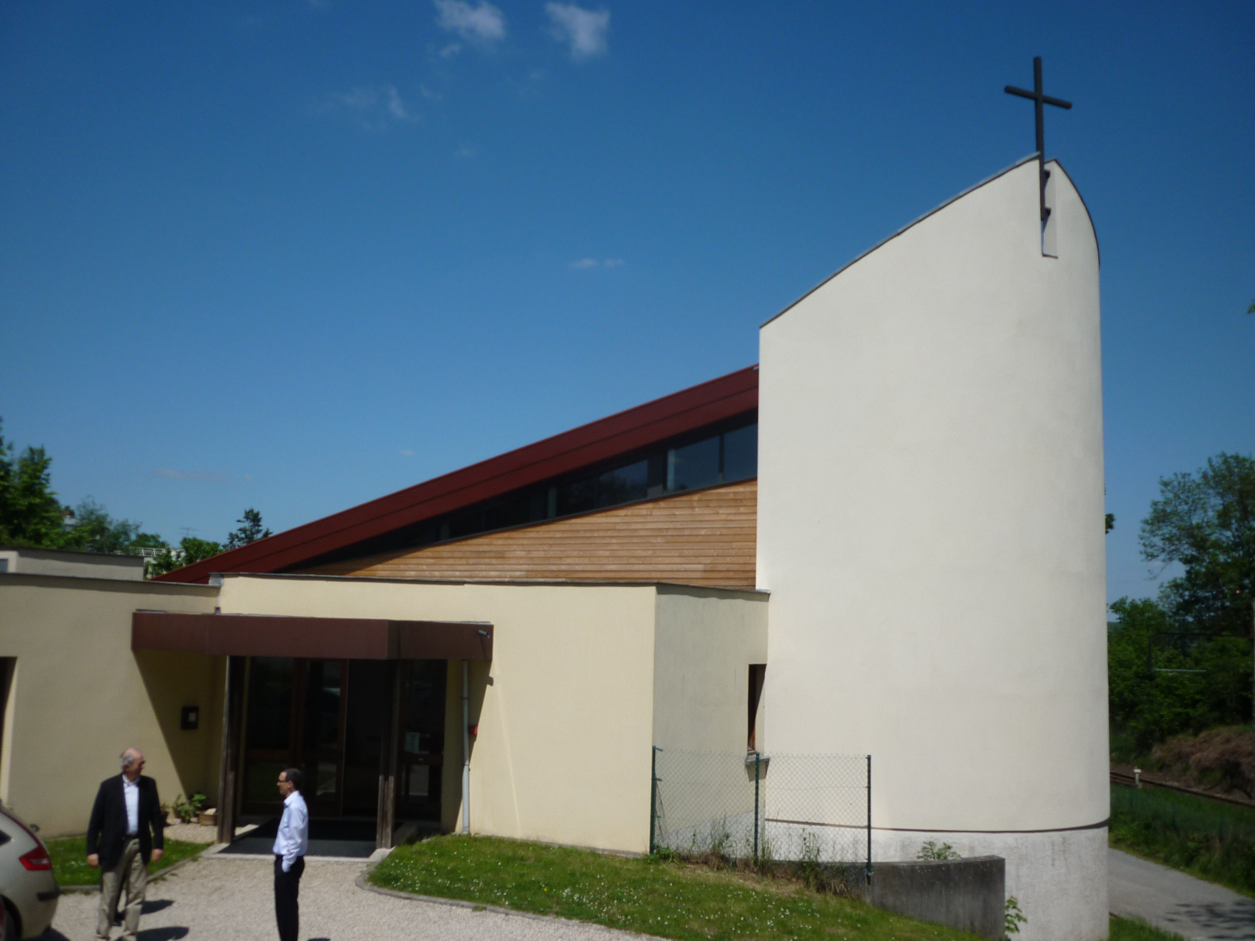 St Marks Anglican Church Versailles France